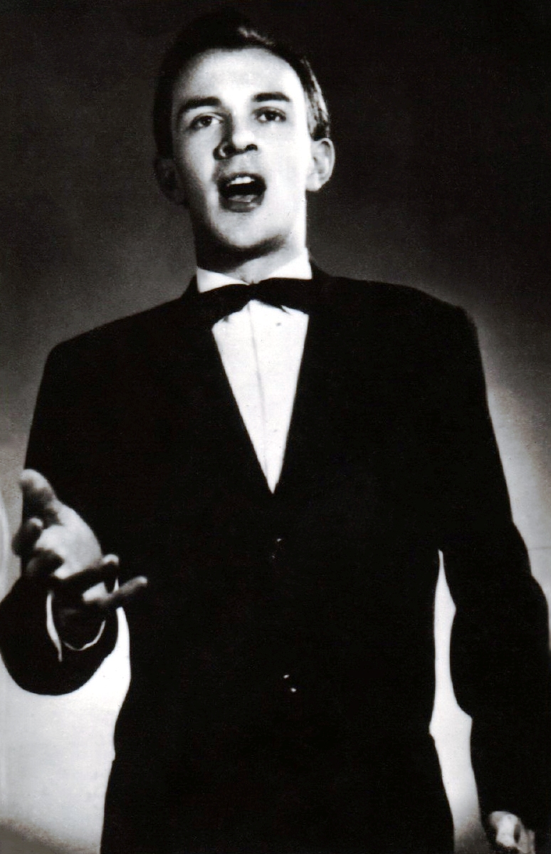 Muslim Magomayev's promotional photo which was included in the envelope and sold.